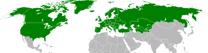 Members of the United Nations Economic Commission for Europe